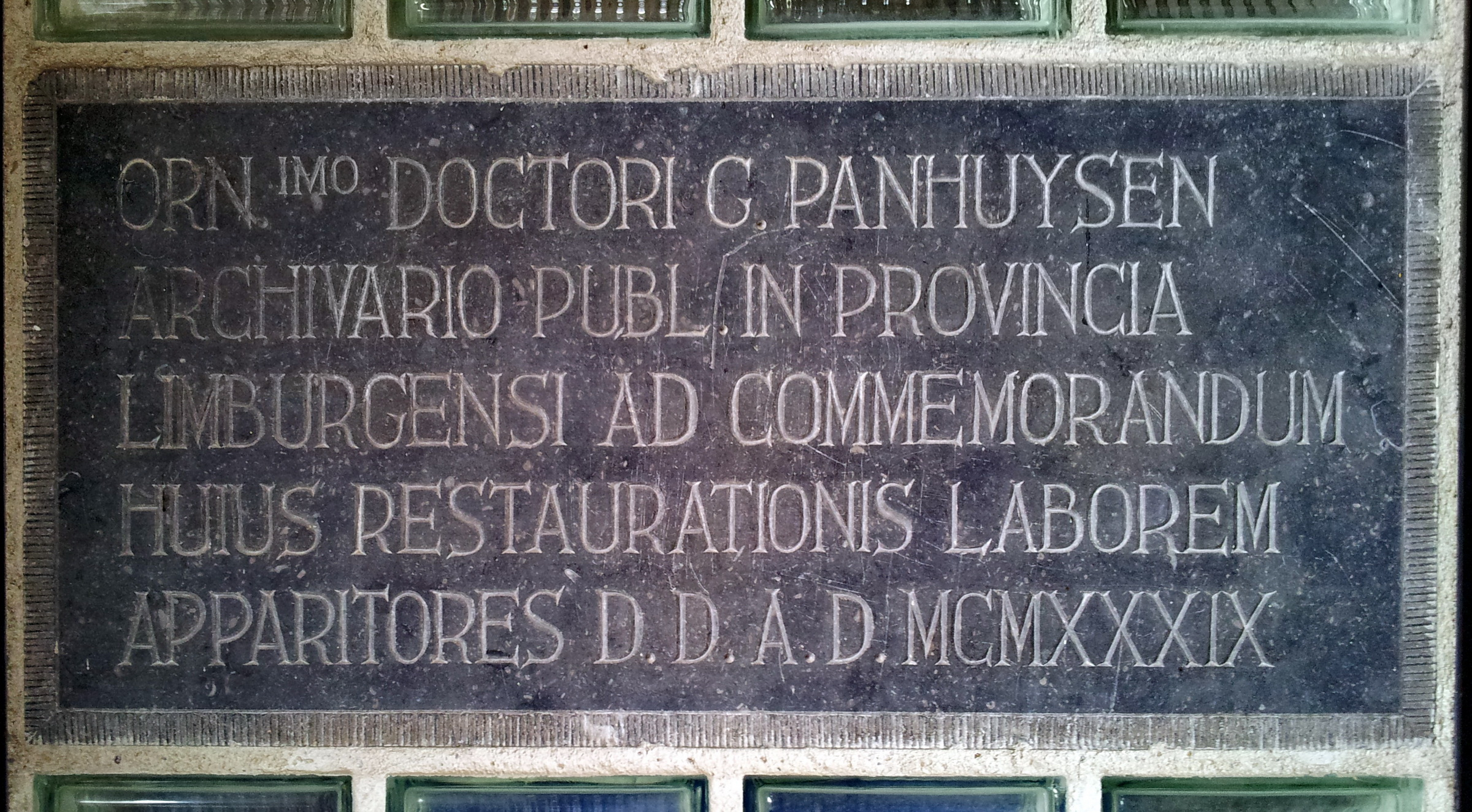 Maastricht, the Netherlands. Commemoration plaque for Dr Gerard Panhuysen, archivist of the province of Limburg, in the Old Monastery of the Minorites (Oude Minderbroedersklooster) in Sint Pieterstraat, Jekerkwartier.